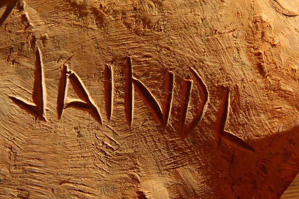 Signature of Othmar Jaindl (1911-1982), Sculptor from Landskron/Villach, Austria